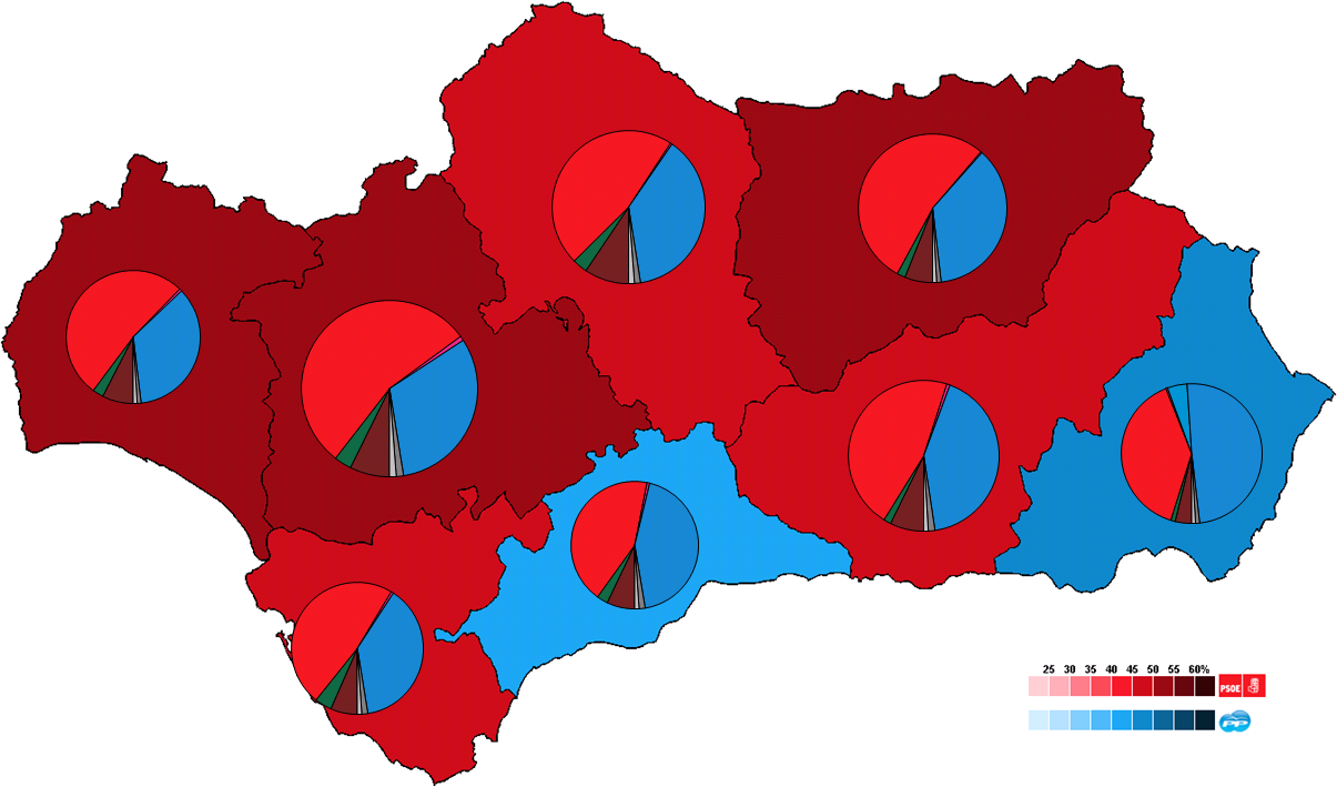 Provincial results for the Andalusian parliamentary election, 2008.